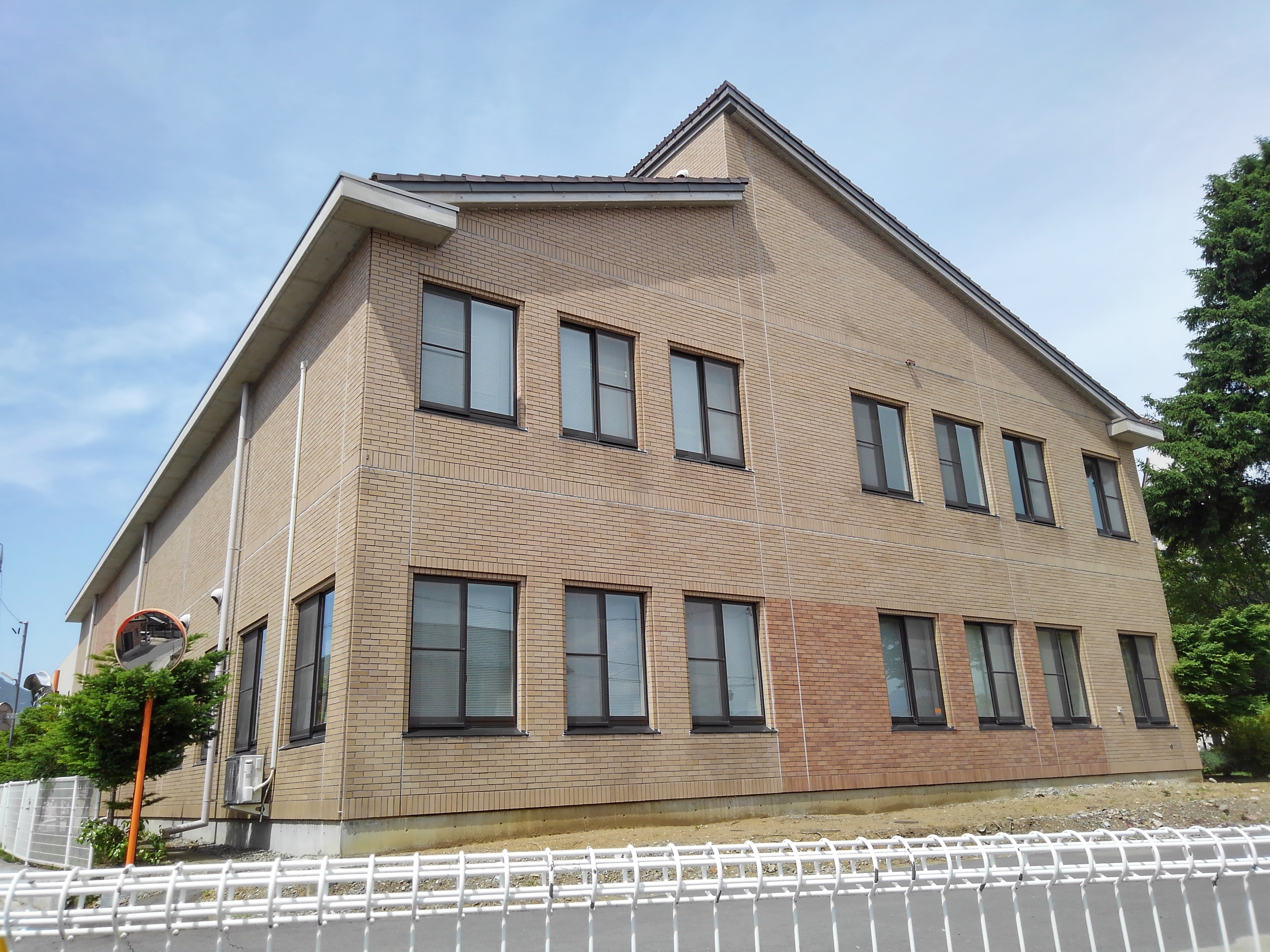 Library (older building) of the University of Nagano located in Nagano, Nagano, Japan. Taken outside the campus.